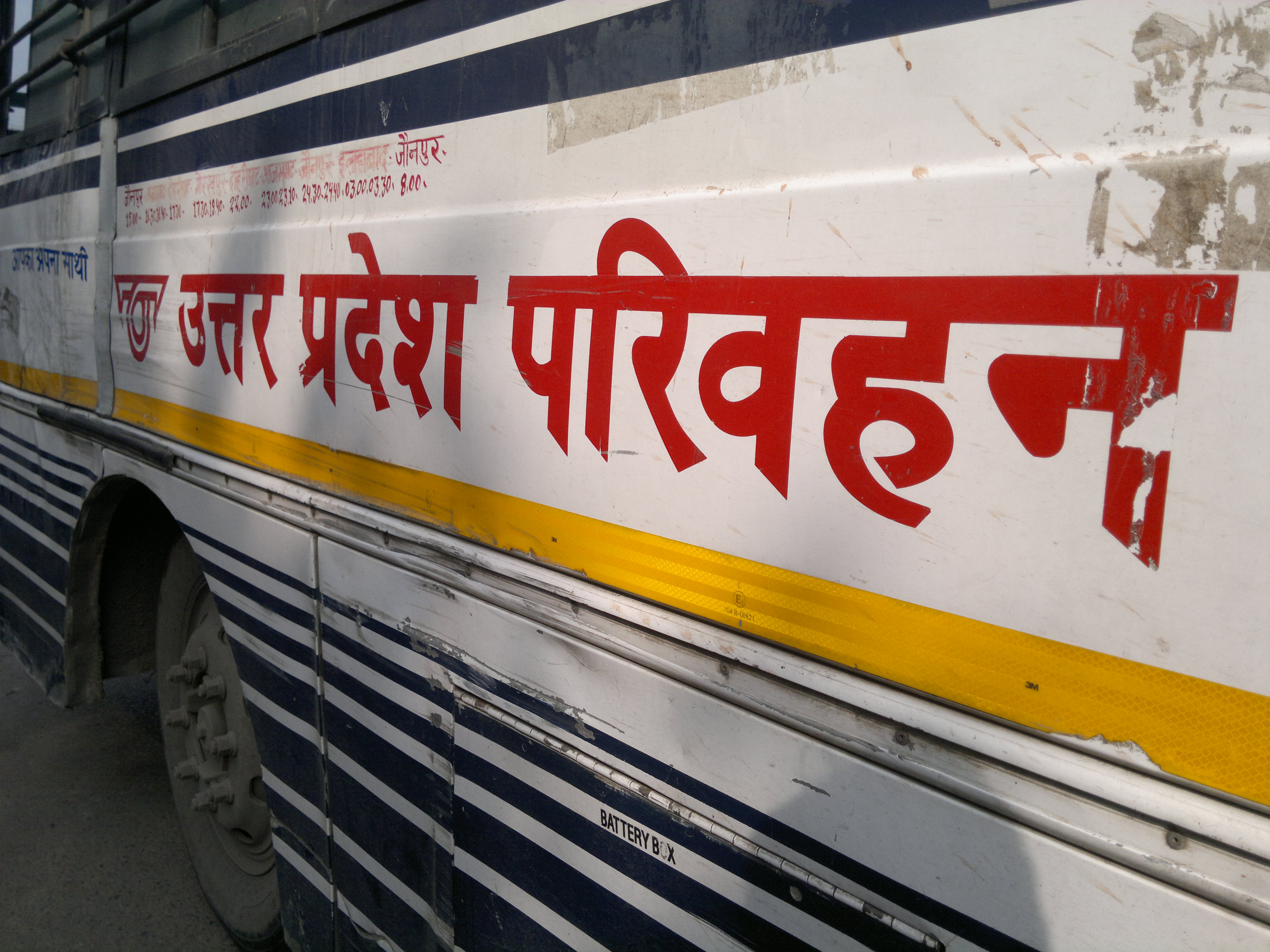 Uttar Pradesh State Road Transport Corporation (UPSRTC) is a public sector passenger road transport corporation based in Uttar Pradesh, India operating intrastate and interstate bus services.